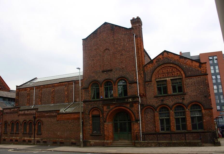 Manchester Tennis and Racquet Club in Salford (Squash Court) 1925